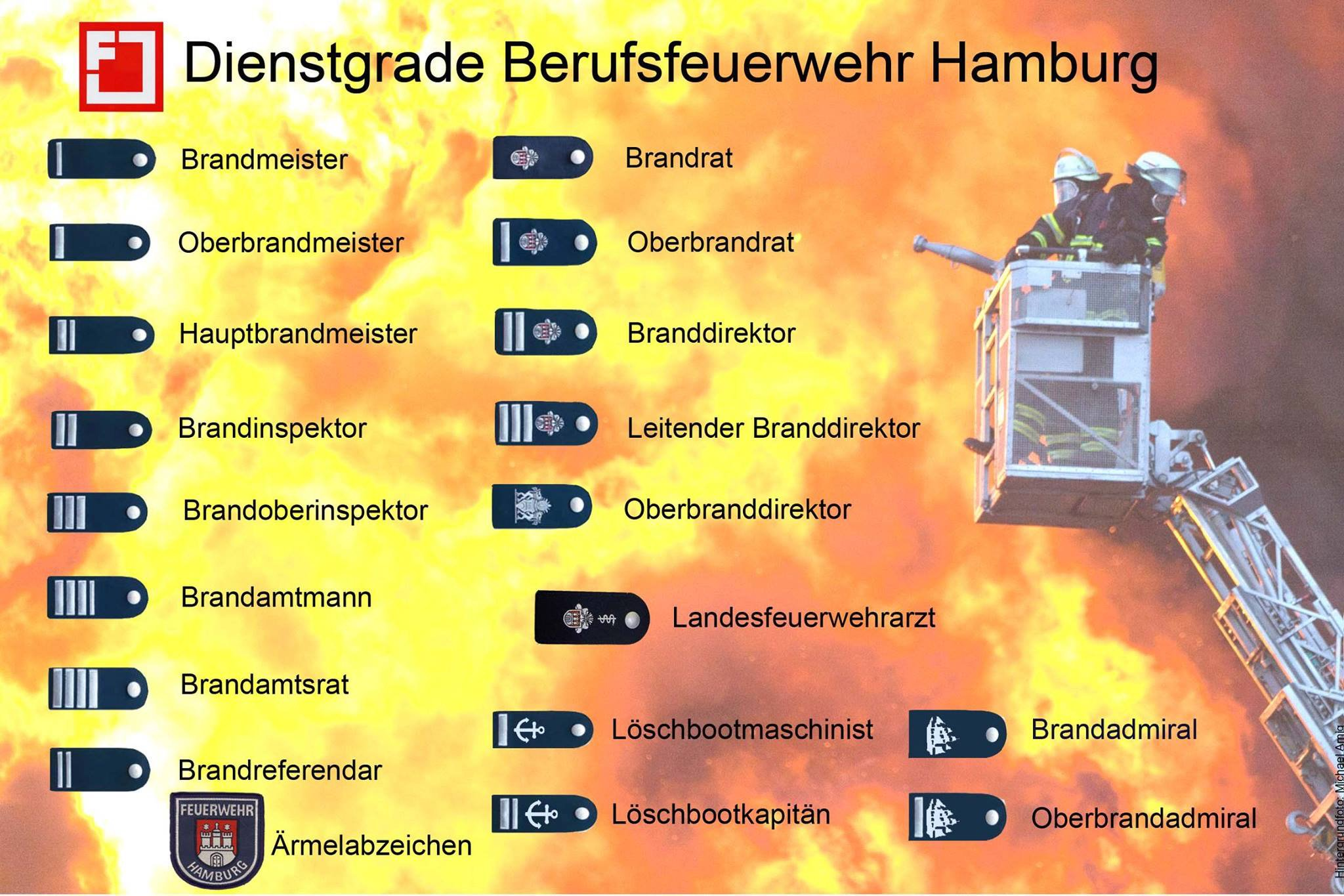 Rank insignia professional fire department of Freie und Hansestadt Hamburg